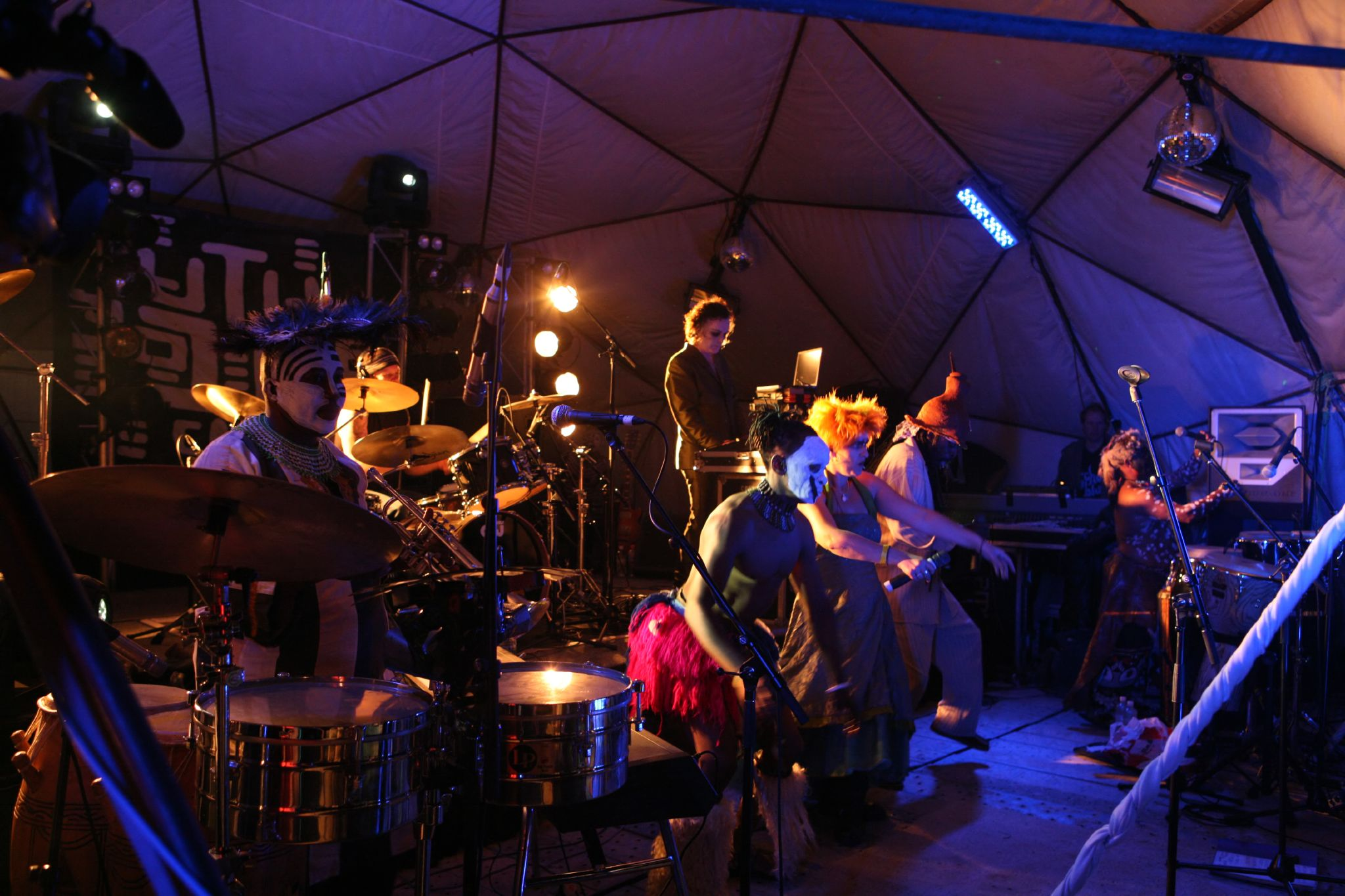 Juno Reactor performing live at Earthcore in Victoria, Australia.